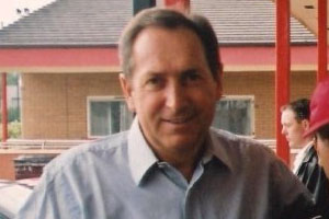 Picture of Gérard Houllier.